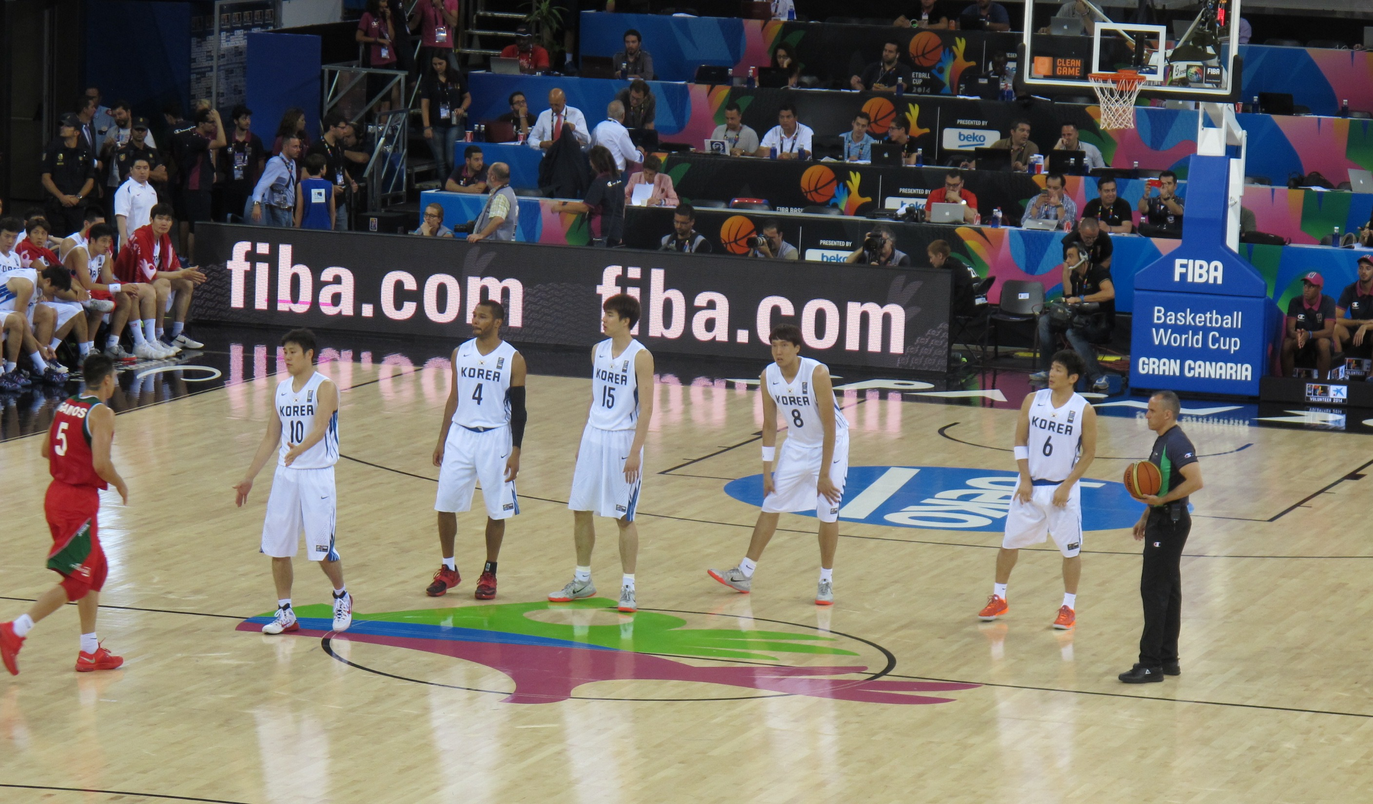 2014 FIBA Basketball World Cup Korea vs Mexico